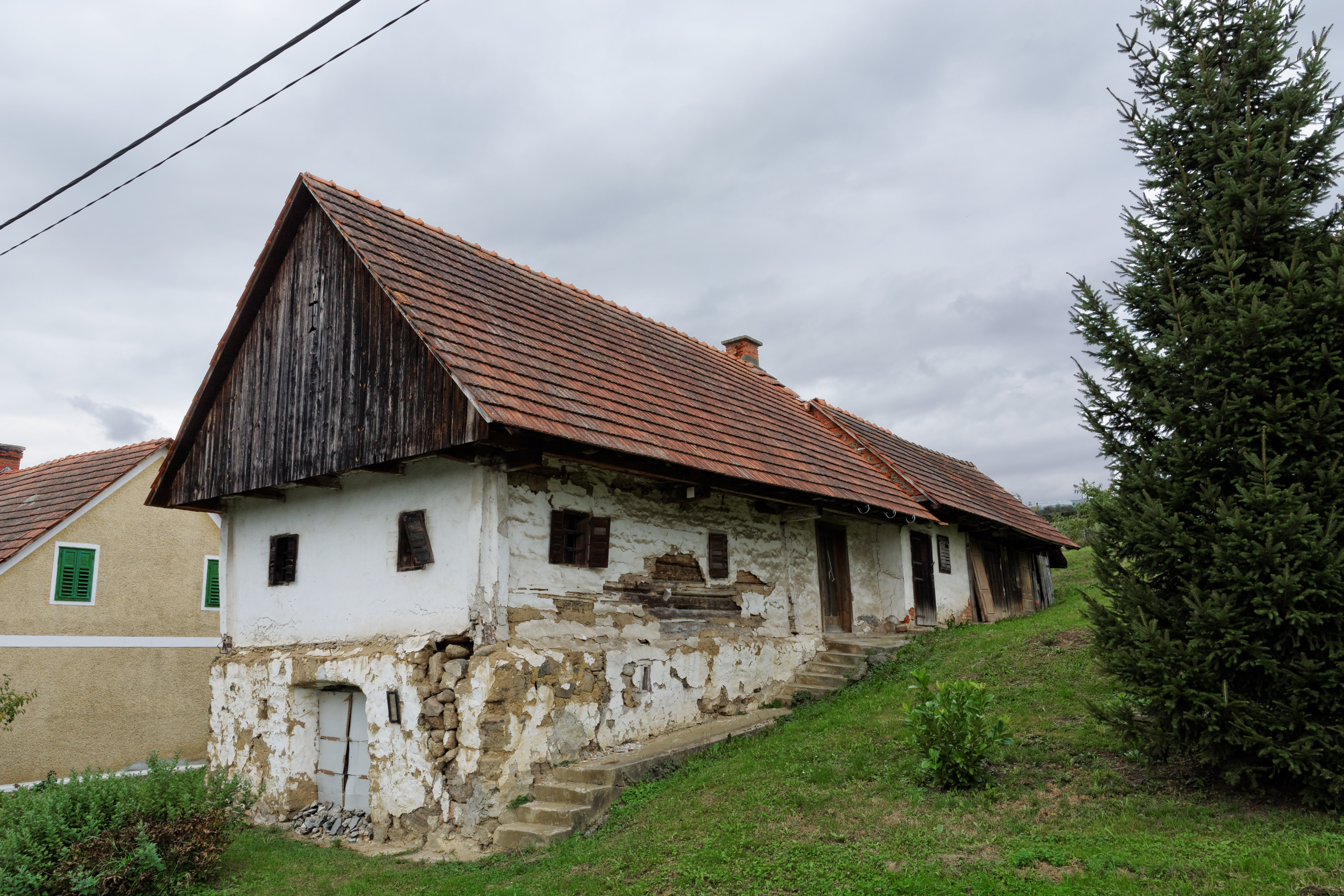 Hovel of a stove-fitter in Pichla bei Radkersburg, Municipality Tieschen, Styria, Austria